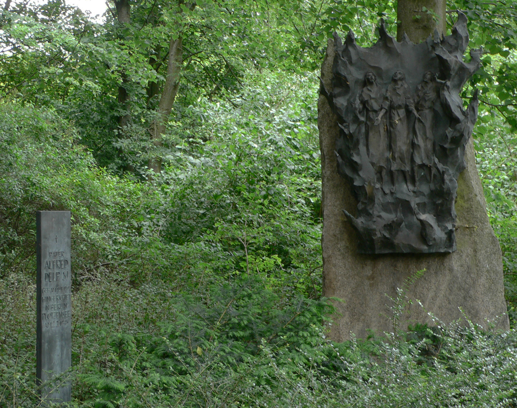 Memorial of Pater Alfred Delp SJ, nearby St. Georg, München-Bogenhausen